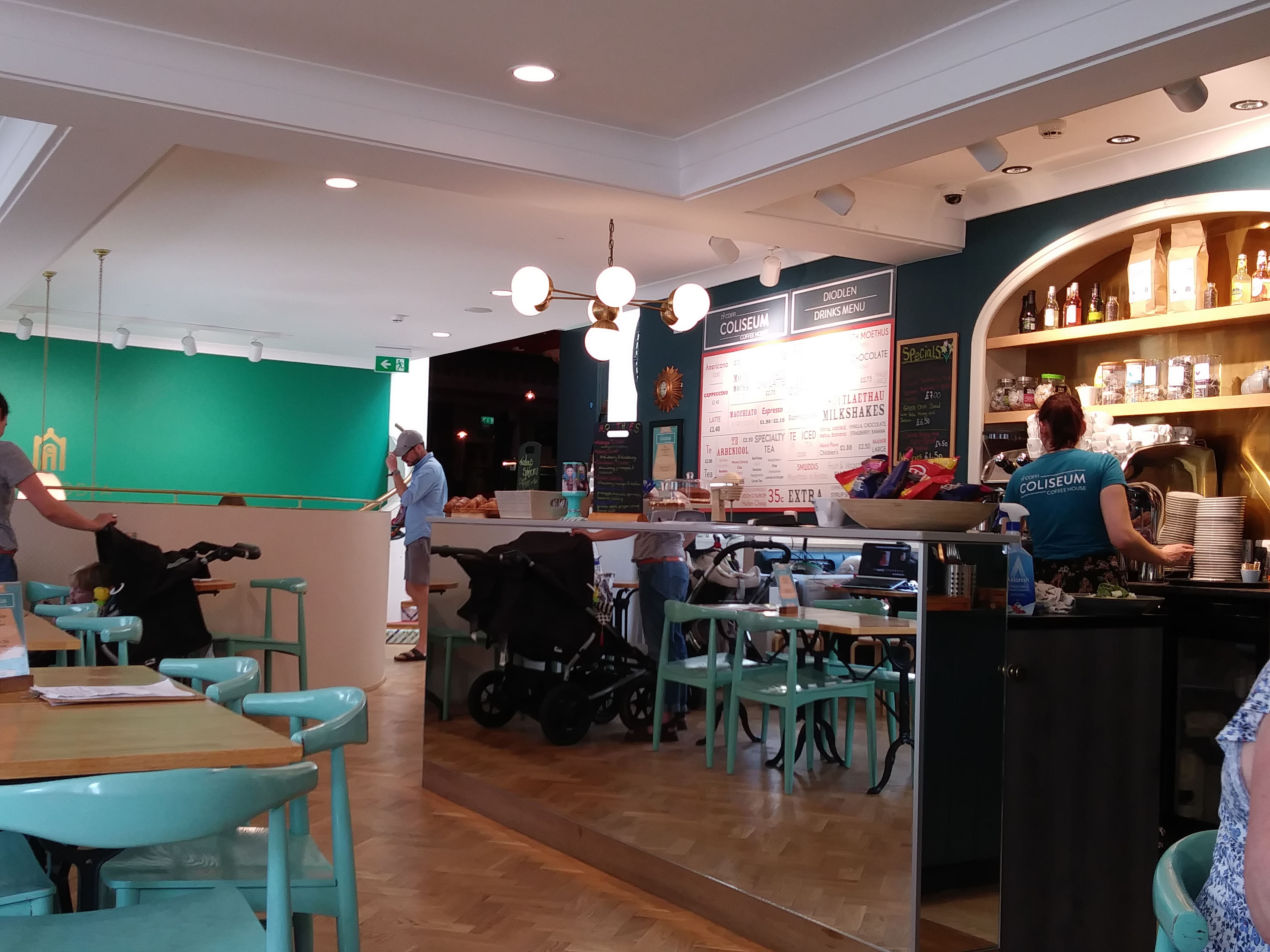 Ceredigion Museum, Aberystwyth, exhibition